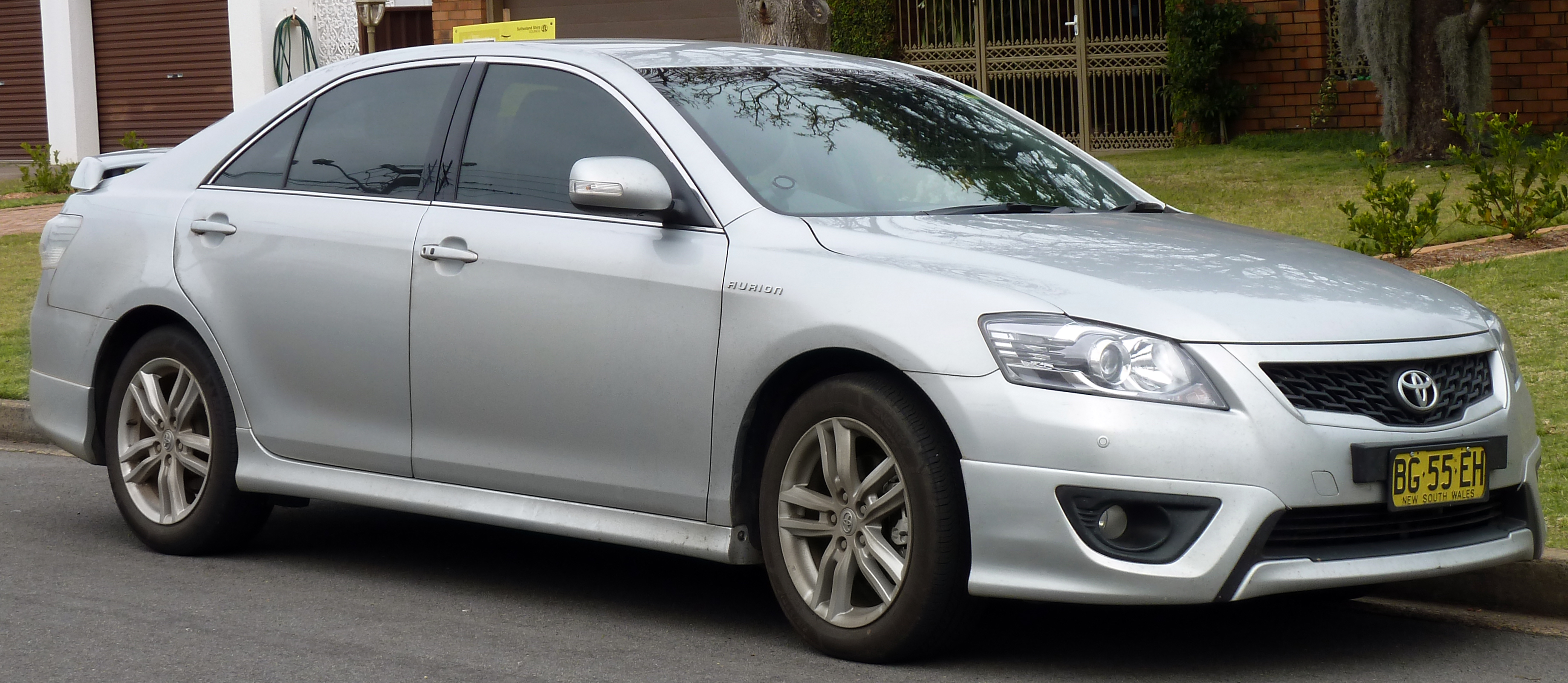 2010 Toyota Aurion (GSV40R MY10) Sportivo ZR6 sedan. Photographed in Sylvania Waters, New South Wales, Australia.